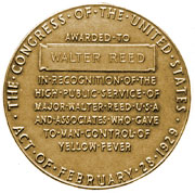 Bronze duplicate of Congressional Gold Medal awarded Walter Reed and others in 1929 (reverse)